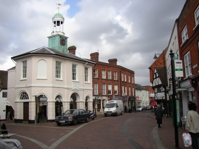 The Market Hall, Godalming. Built in 1814 by John Perry, a local man and paid for by public subscription according to the plaque on the wall. The open arcaded ground floor was re-opened in 1955 after a long period of use as a Victorian lumber room and public convenience.